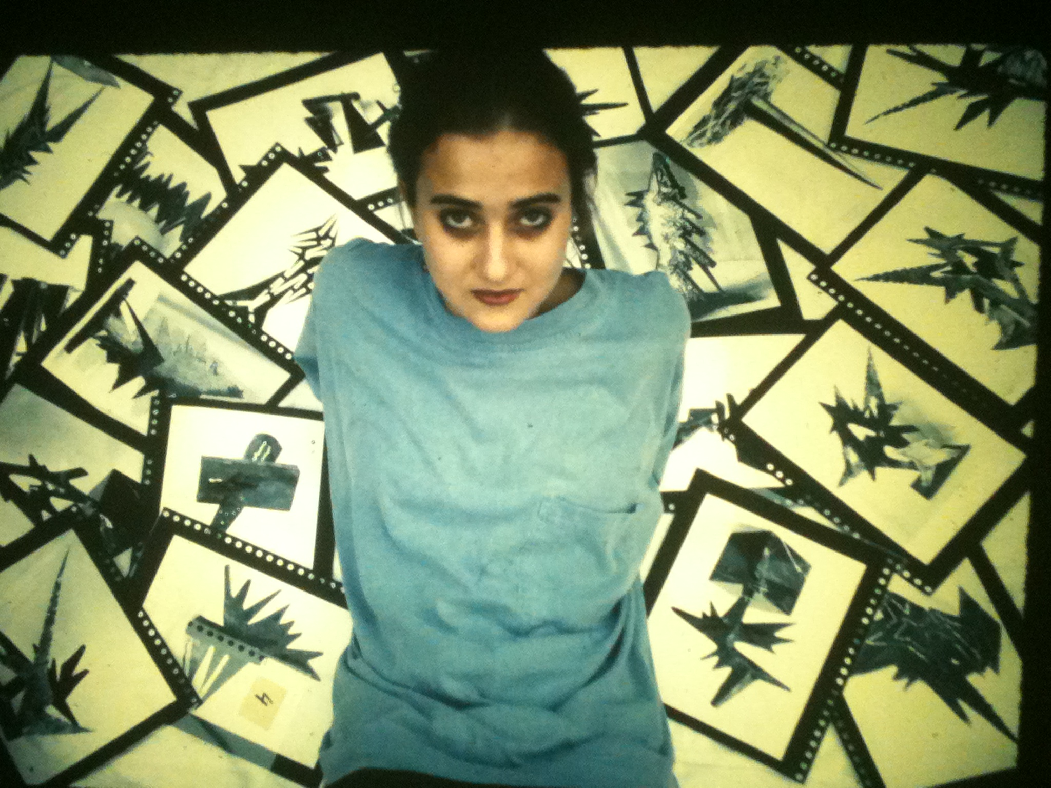 Sinem Banna with a collection of images from her Fear Series (1989), which consists of ceramic, bronze, and mixed media sculptures. Photographed in the United States in 1990.